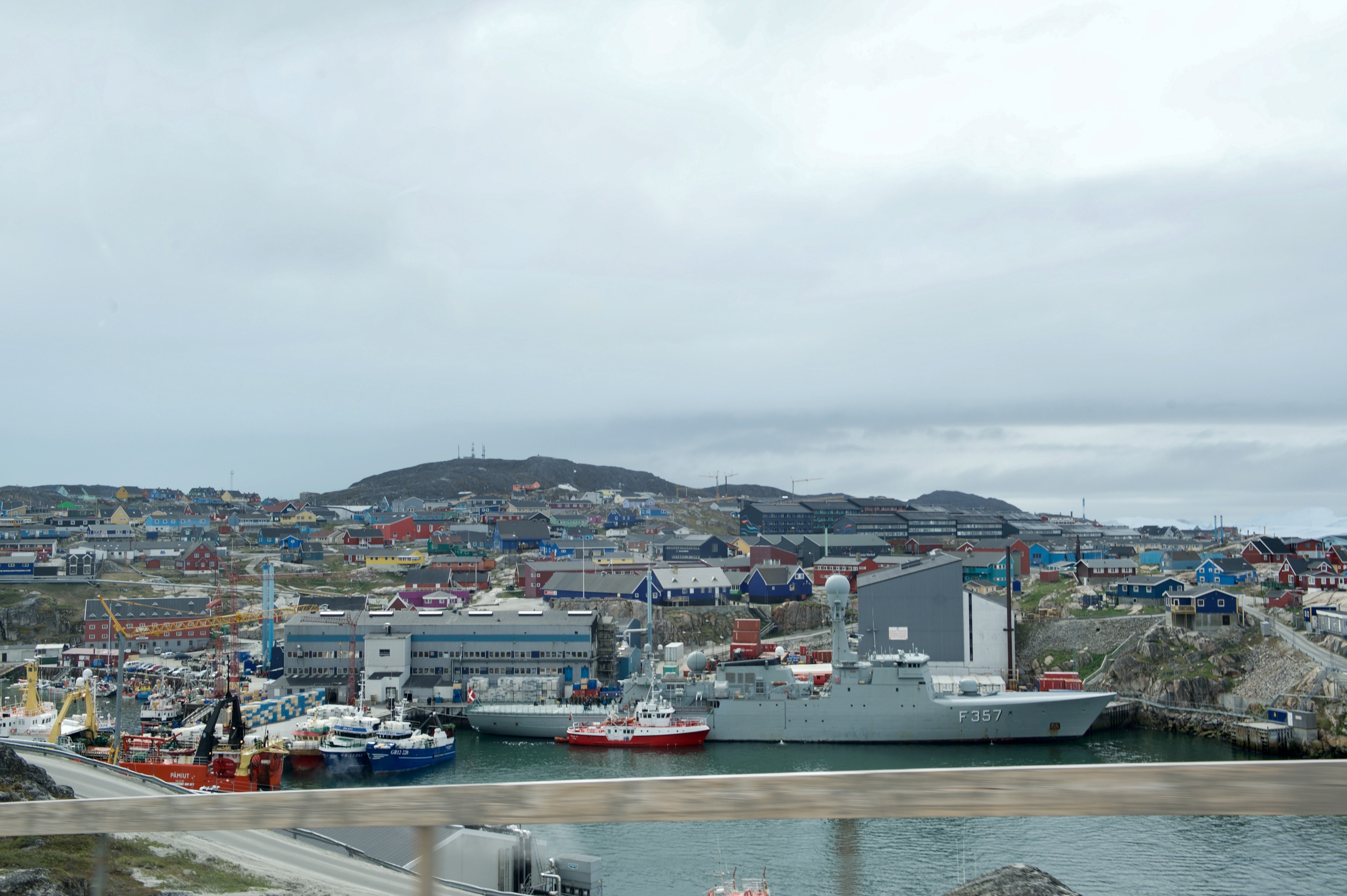 The HDMS Thetis sits in the port of Ilulissat, Greenland, before U.S. Secretary of State John Kerry boarded on June 17, 2016, so he and Danish Foreign Minister Kristian Jensen could take a cruise through an iceberg field created by the Jacobshavn Glacier Front, receive a briefing from climate change scientists, and meet with Greenlandic Premier Kim Kielsen and Foreign Minister Vittus Qujaukitsoq. [State Department photo/ Public Domain]